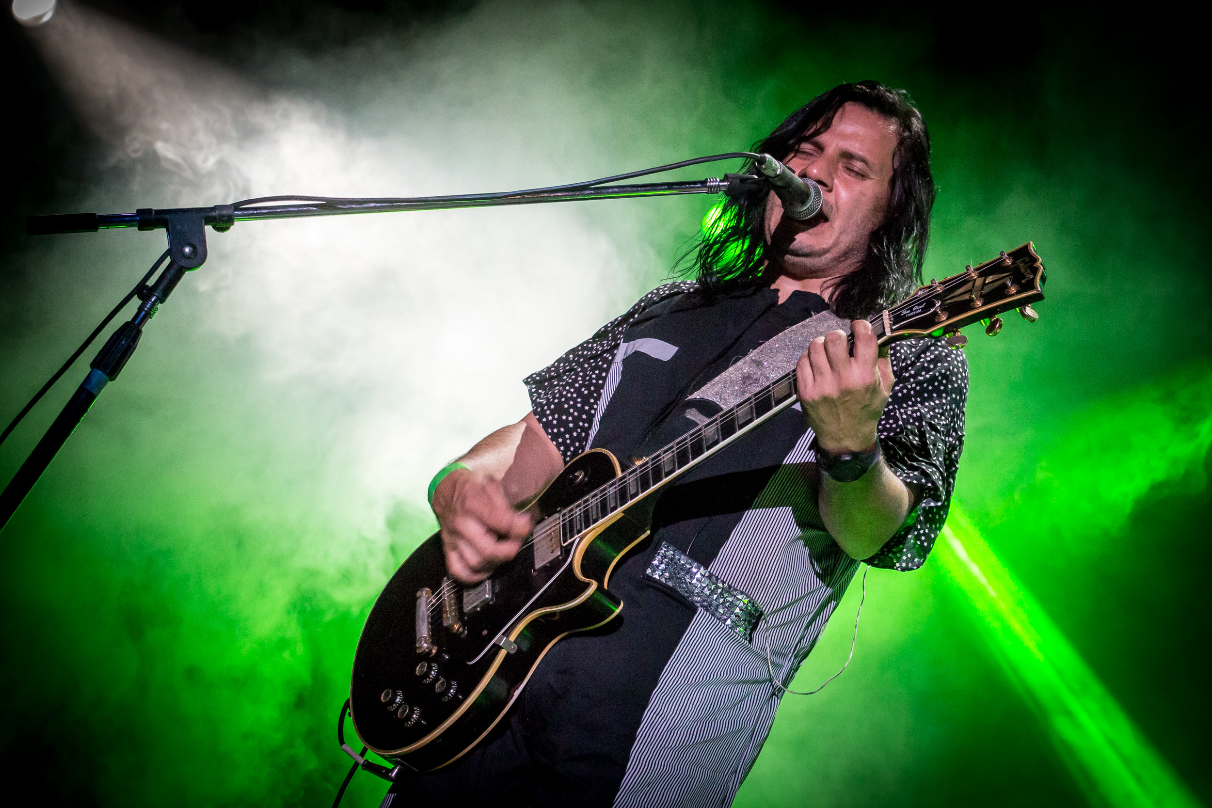 San Rafael, 19 de febrero de 2015En el marco de la campaña "Verano de emociones", organizada por Presidencia de la Nación en conjunto con el Ministerio de Cultura de la Nación se presentaron San Rafael La Franela y El Otro Yo.